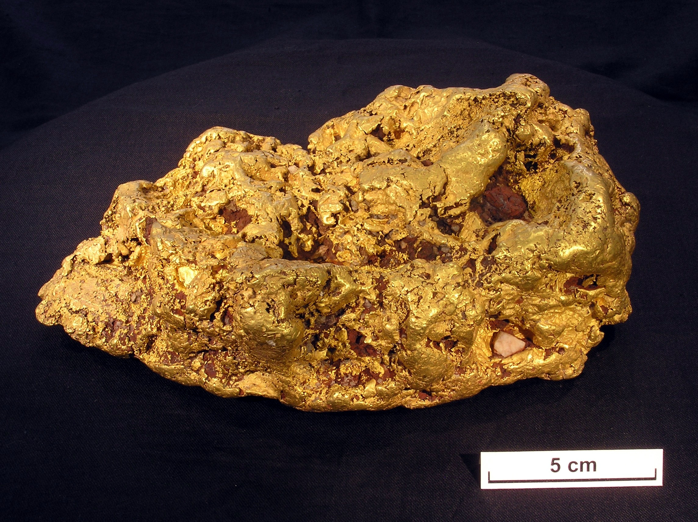 A study of the characteristics of gold nuggets from around Australia revealed that they formed at high temperatures. Since these temperatures do not occur at the surface, the nuggets must have originated deep underground. Previously, it had been thought that gold nuggets formed in place, where they were found, either precipitated from fluids or grown from microbial action. Their presence near the surface is the result of geological process and weathering over vast periods of time.